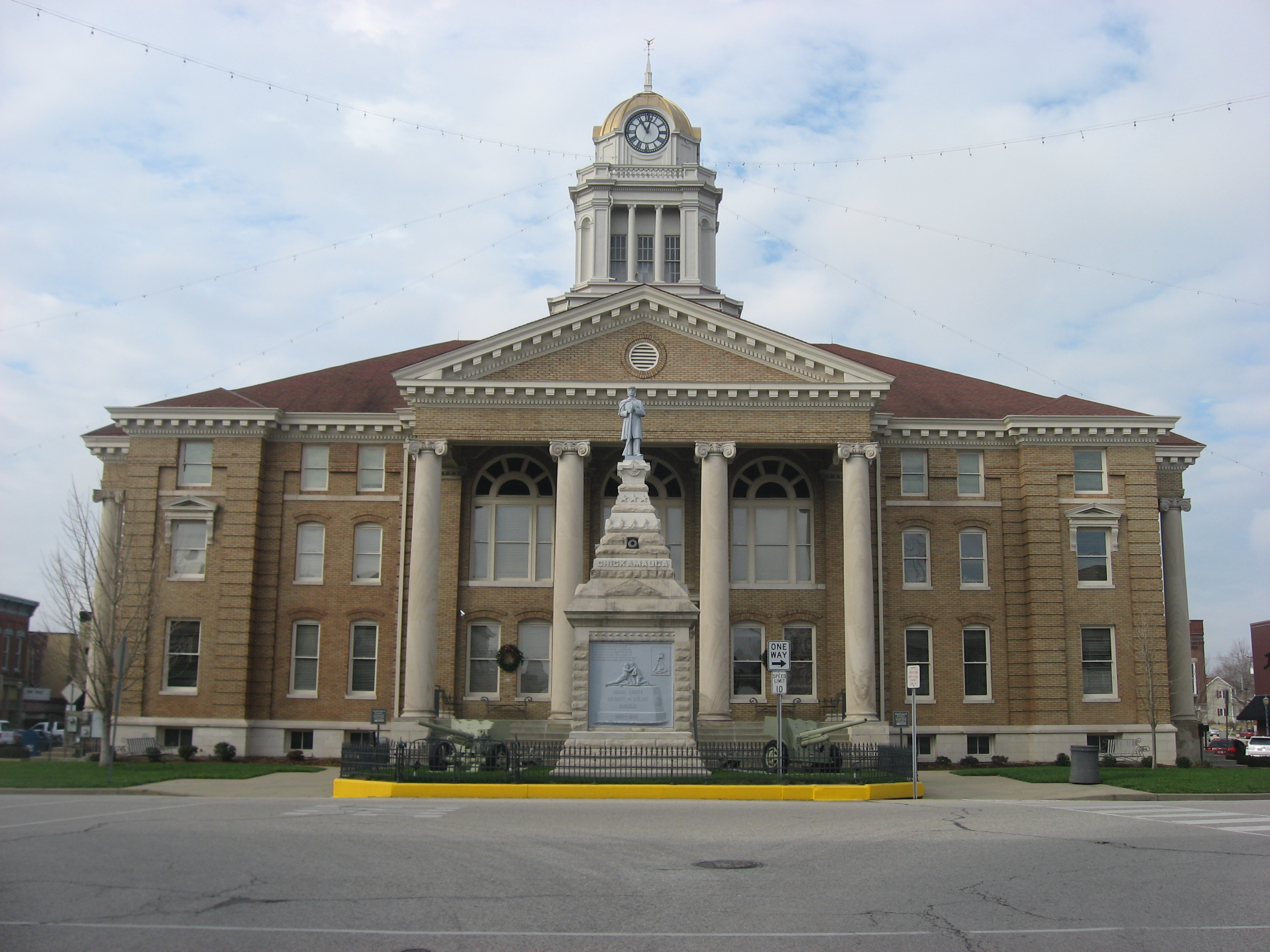 Eastern side of the Dubois County Courthouse, located on Courthouse Square in downtown Jasper, Indiana, United States. Built between 1909-1911, it is listed on the National Register of Historic Places.